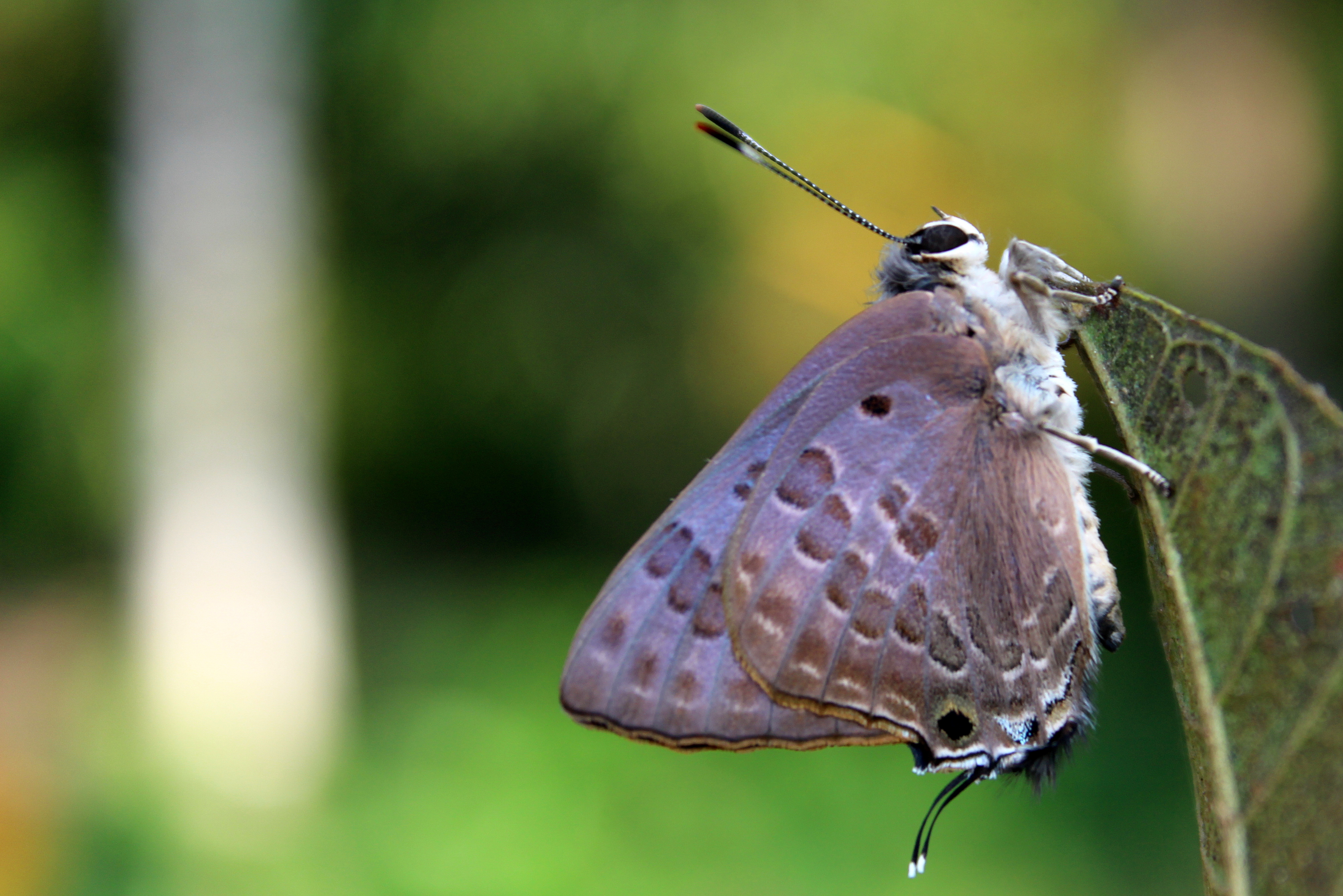 A lycaenid butterfly found in the Indian peninsular region and north-eastern states.